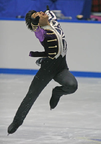 Nobunari Oda(JPN) at the 2008 NHK Trophy.